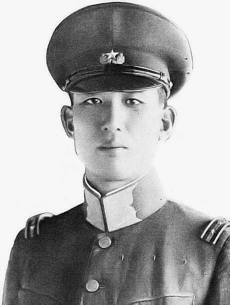 Prince Kitashirakawa Nagahisa